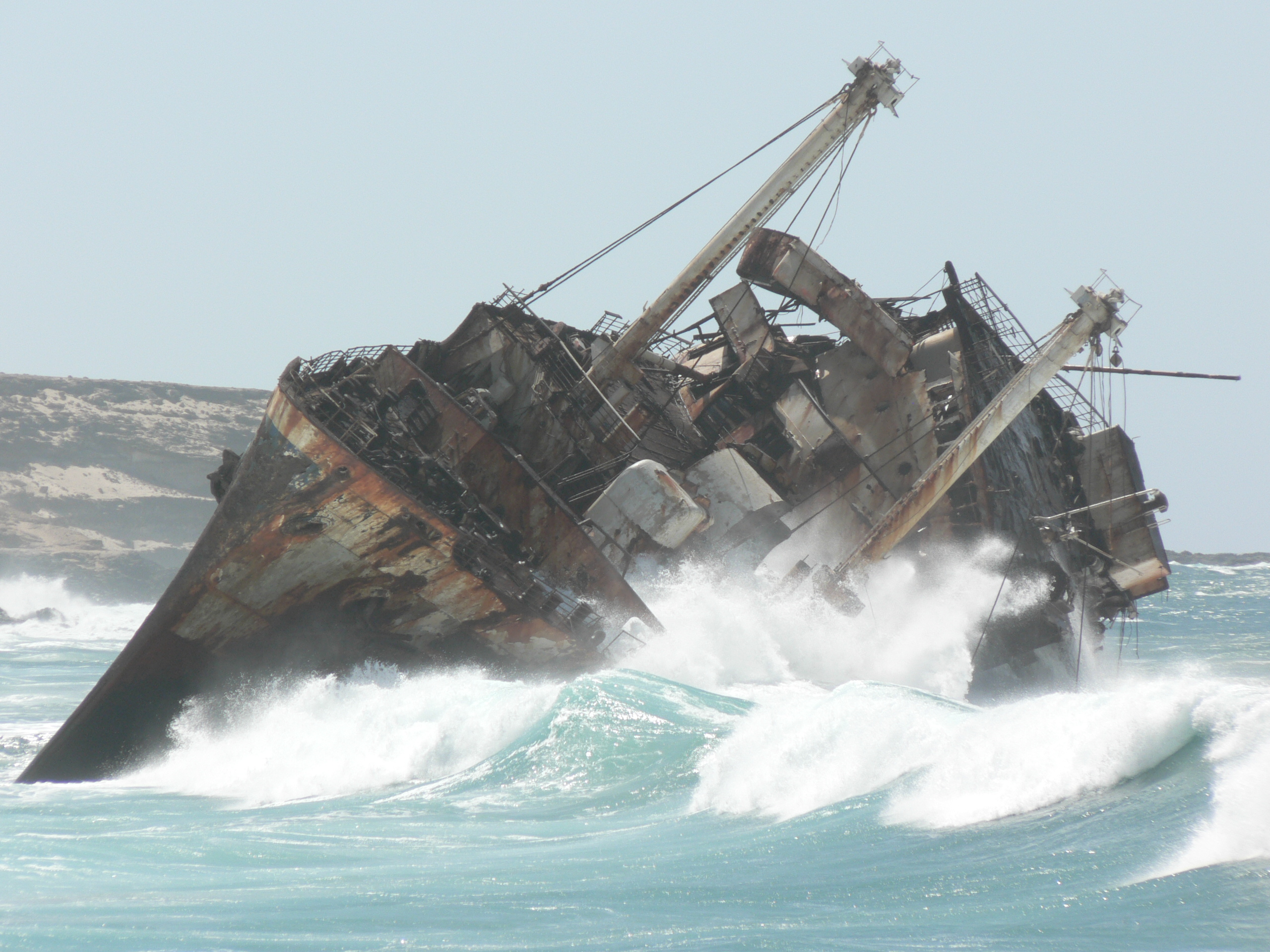 The former S.S.America now beached and disintegrating on the island of Fuerteventura. Taken by Ian Pullen Sept 2006.